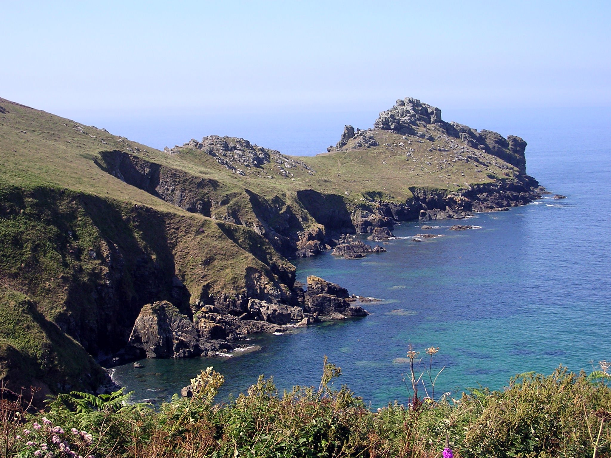 Gurnard's Head promontory from the Coast Path to the east, Cornwall